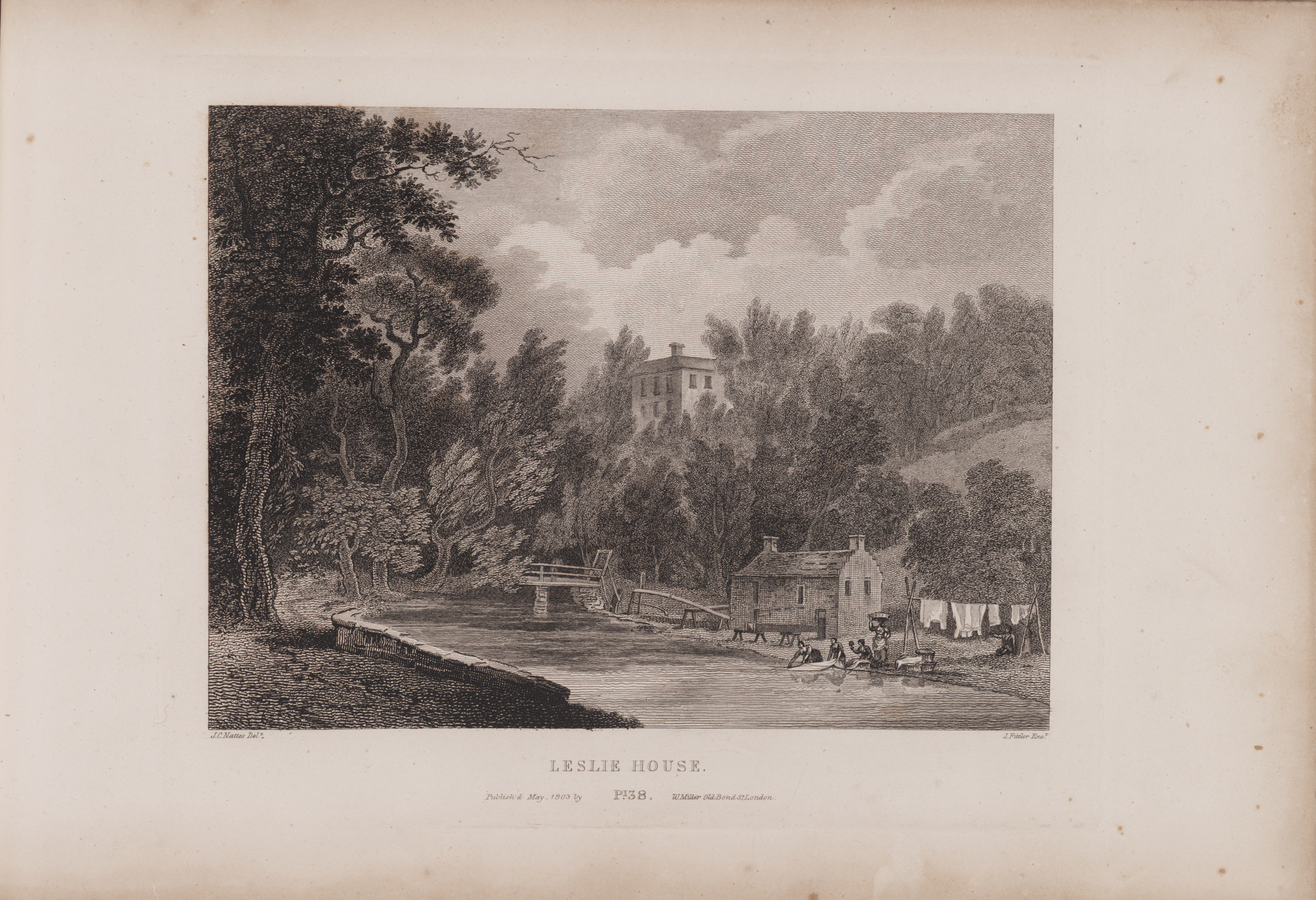 Plate XXXVIII/ b - John Claude Nattes made drawings of suitable scenes on the spot; etchings are by James Fittler.